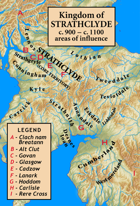 Kingdom of Strathclyde, areas of influence, c. 900 – c. 1100